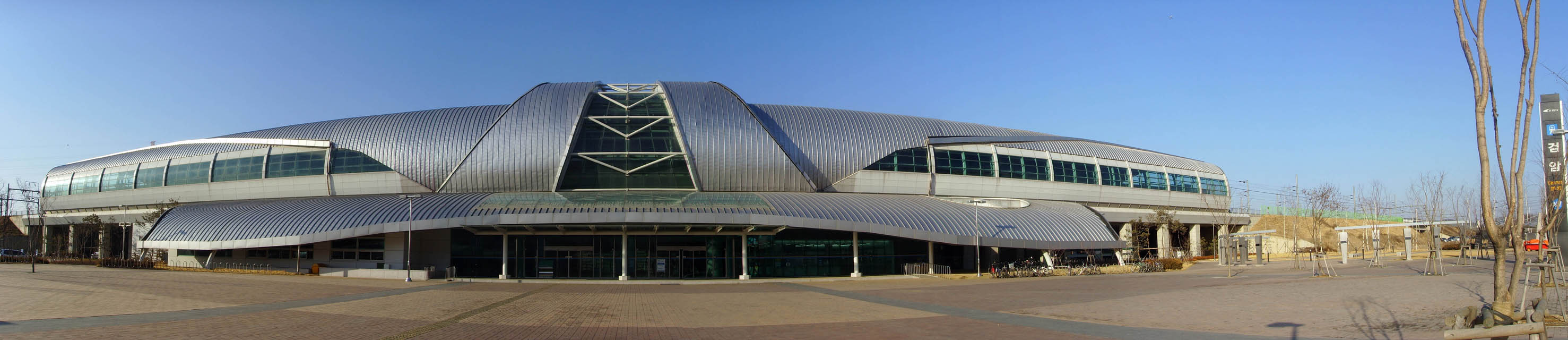 A'REX Geomam Station